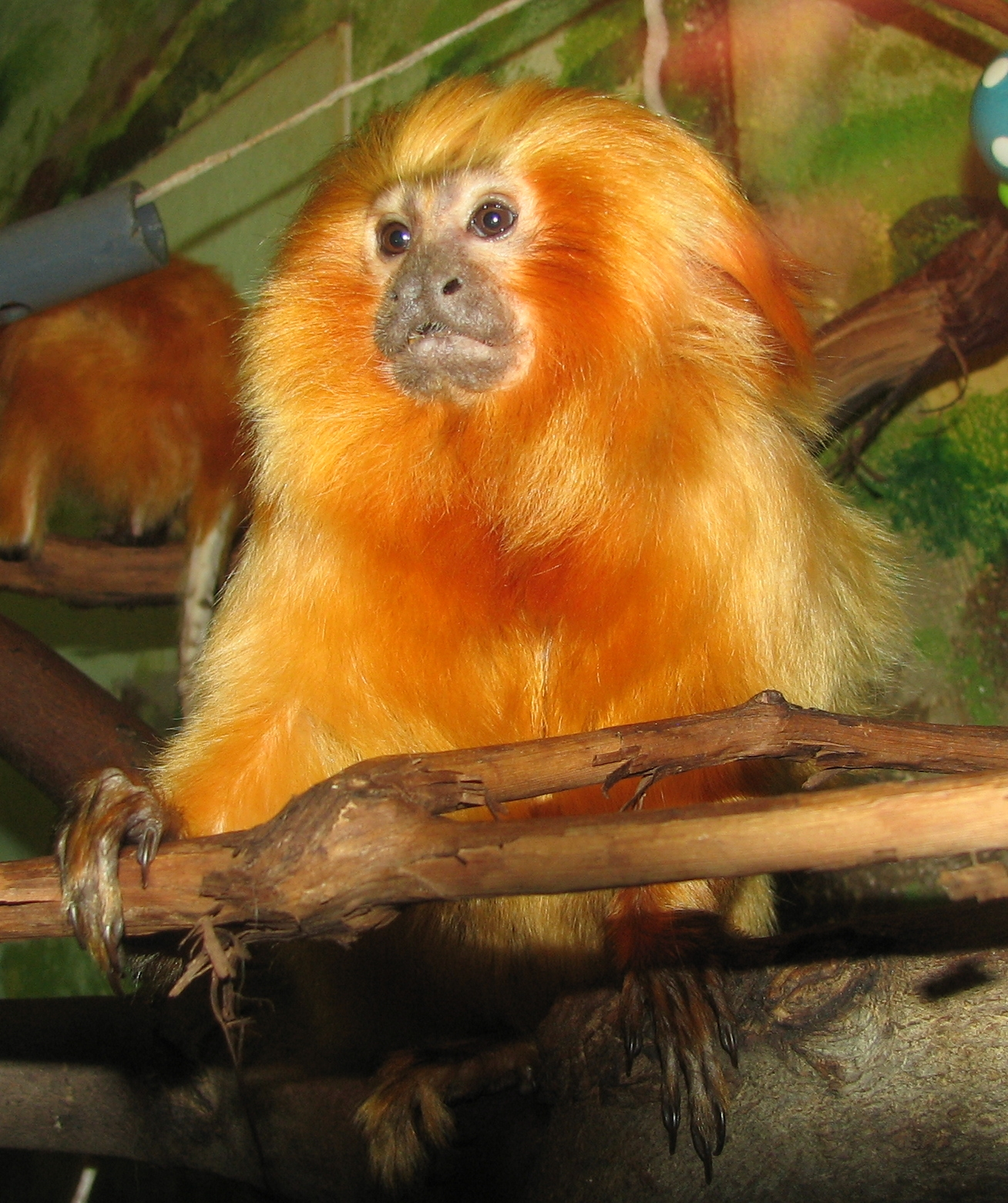 Golden Lion Tamarin (Leontopithecus rosalia)